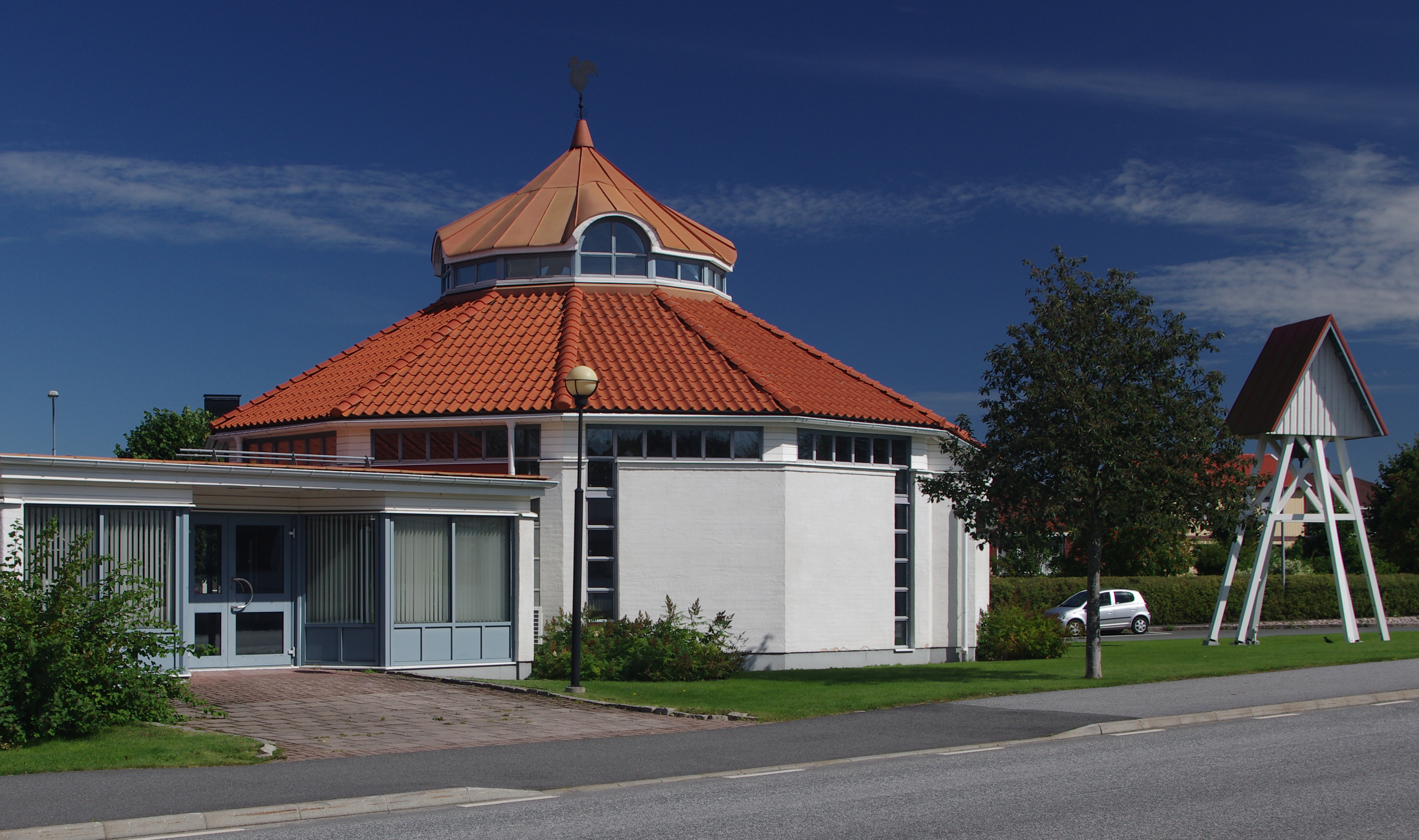 Sankt Johannes kyrka (swedish: Sankt Johannes church), Västergötland, Sweden.